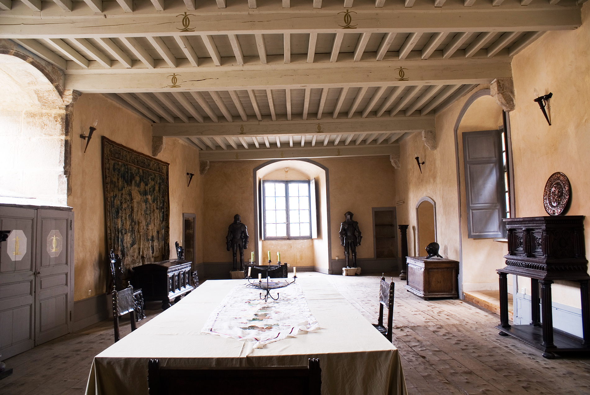 Room of justice at Chateau de chalmazel, (Marcilly Talaru), Rhône-Alpes, France